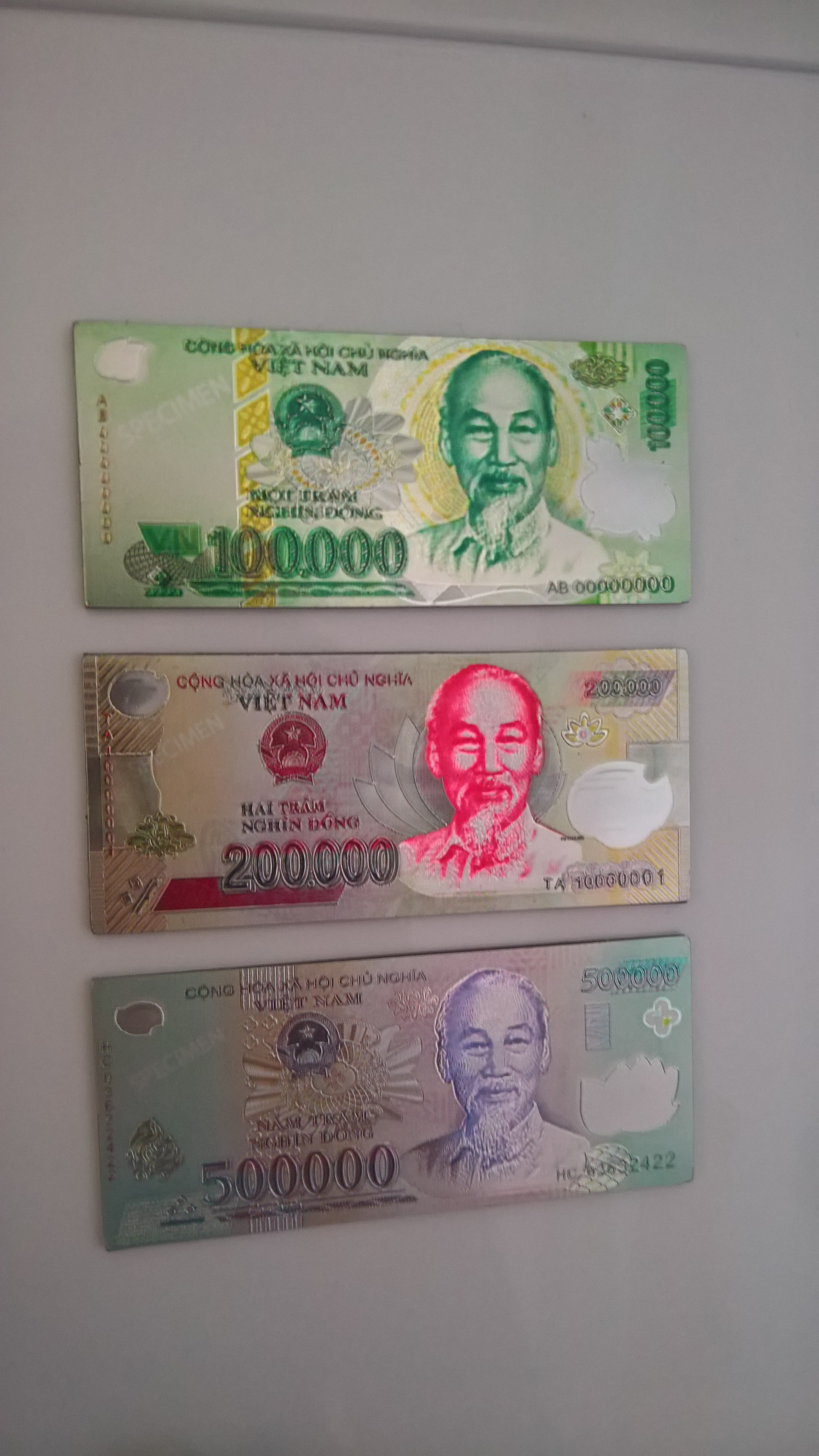 Magnets based on the largest denominations of the VNÐ.